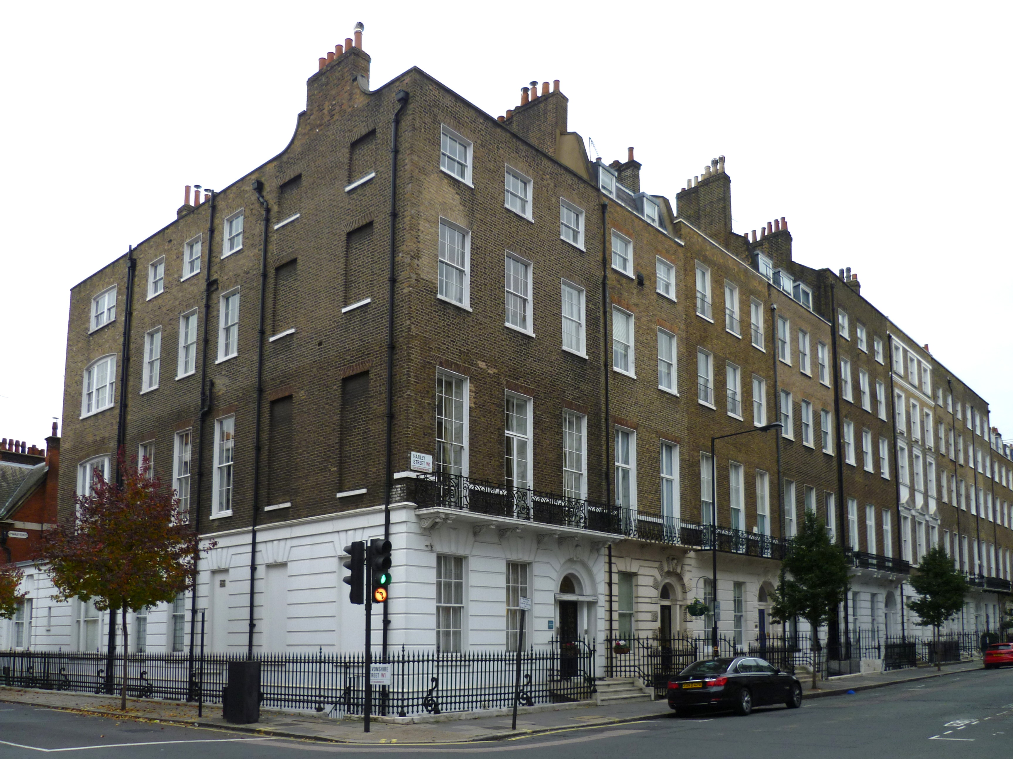 London